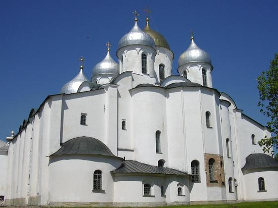 Cathedral of St. Sophia, the Holy Wisdom of God in Novgorod, Russia